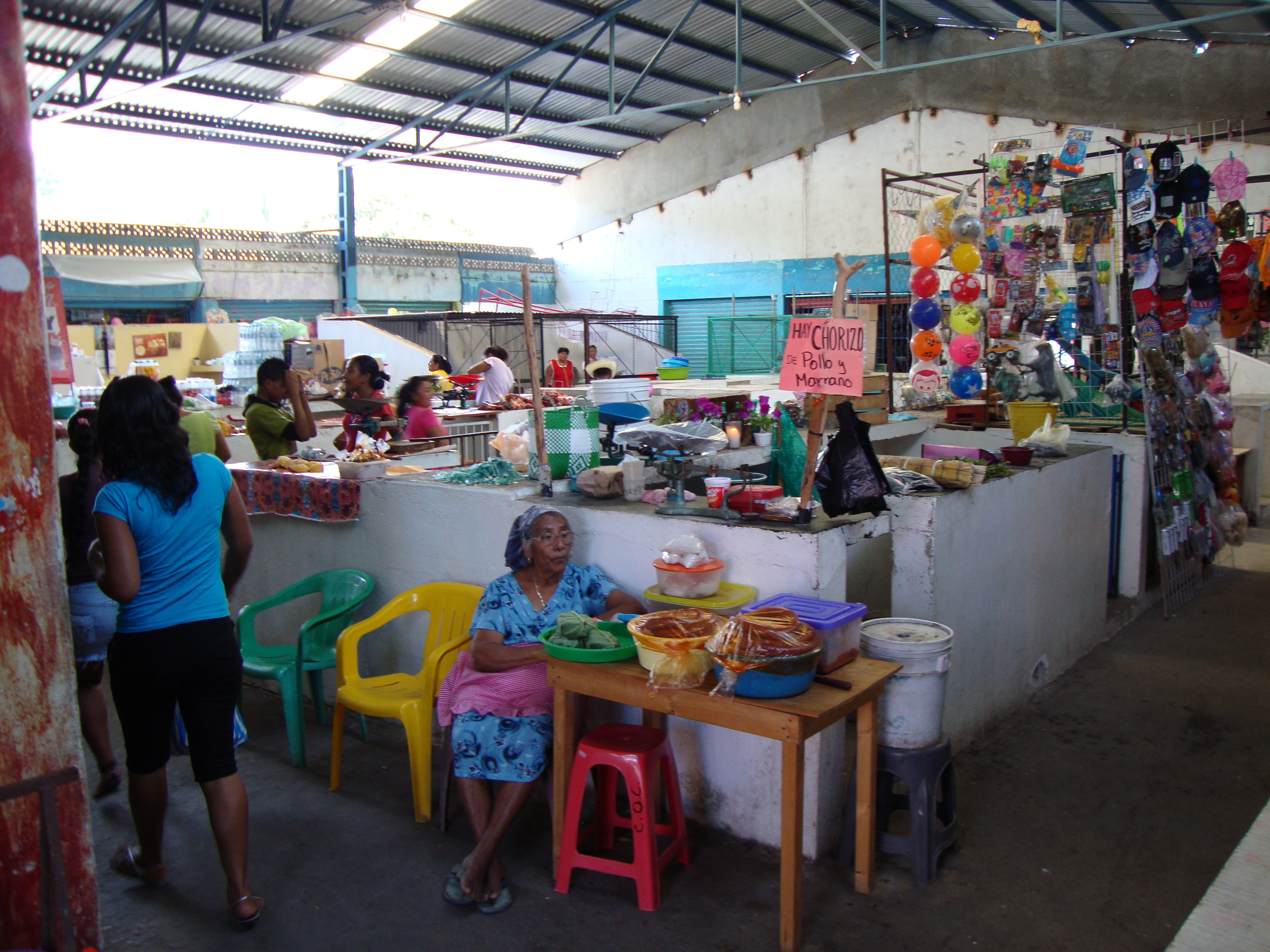 Inside the market